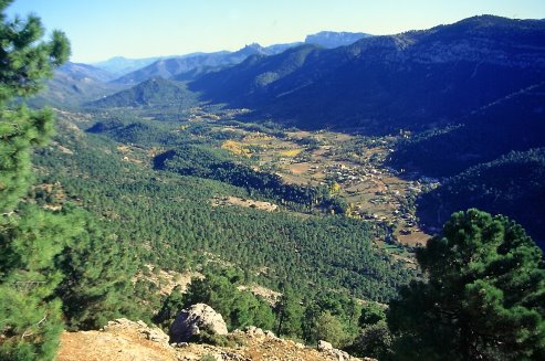 Description: Sierras de Cazorla, Segura y Las Villas (natural park in Andalusia, Spain): View from the Puerto de las Palomas into the Guadalquivir-valley with village Arroyo Frio Source: self-made Photographer/Painter: Jürgen Paeger